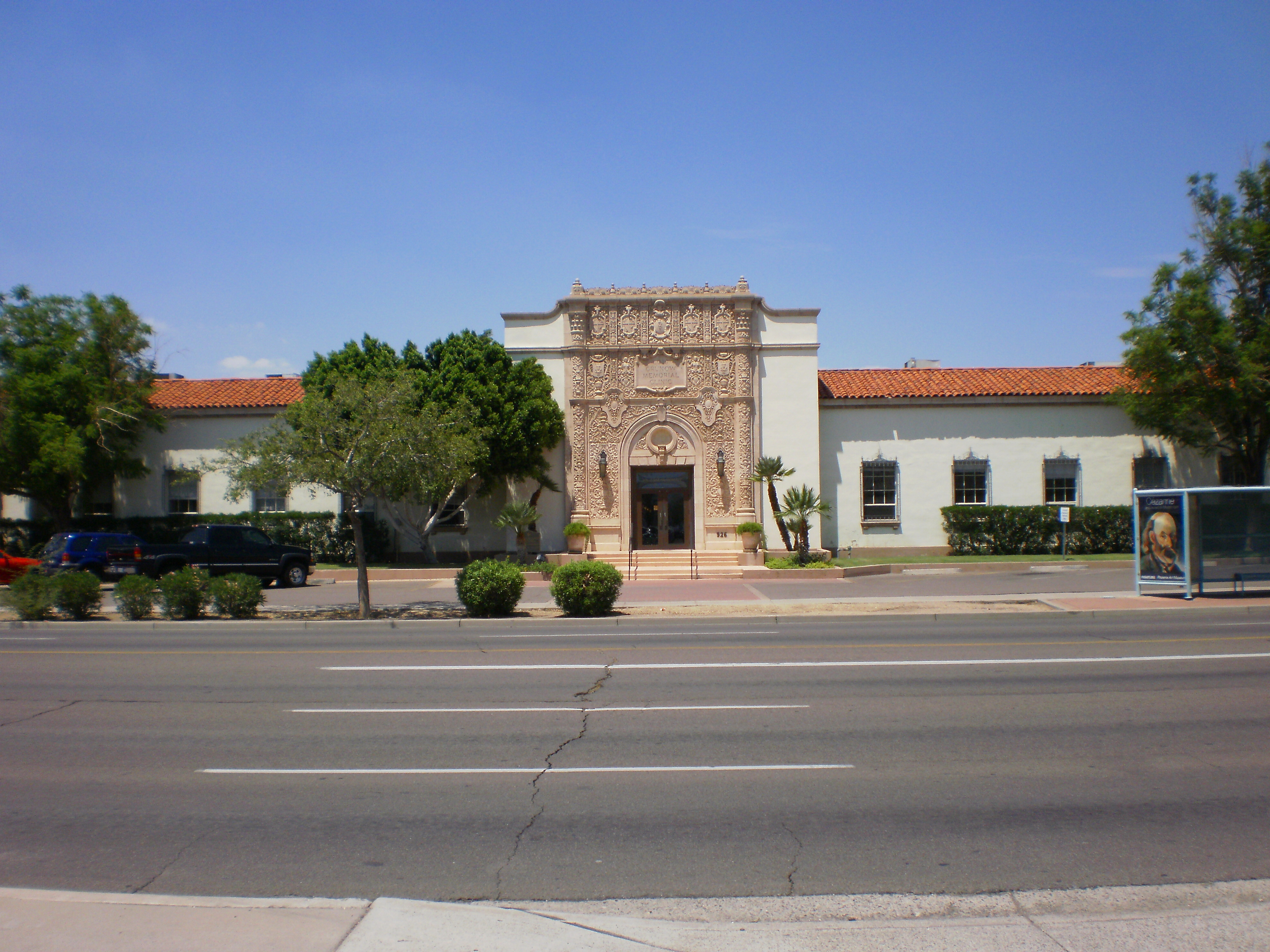 The Grunow Medical Clinic where Winnie Ruth Judd, Agnes LeRoi, and Hedvig Samuelson were employed at the time of the murders